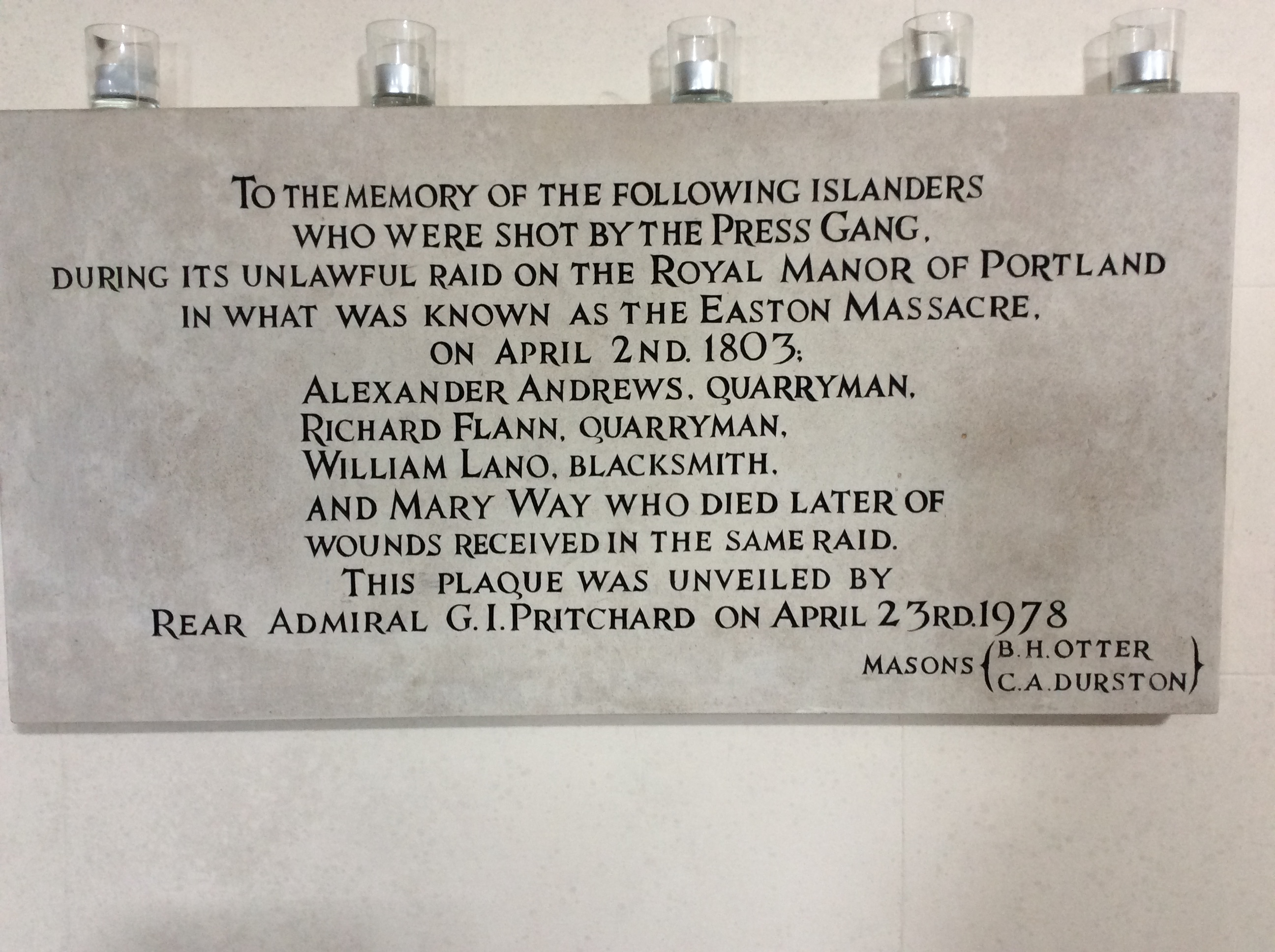 This tablet commemorates the Admiralty's (somewhat belated) apology for the murder of two quarrymen (Alexander Andrews and RIck Flann) and one Blacksmith (William Lano), when they were attempted to be illegally impressed on the Isle of Portland in Dorset on the 2nd April 1803. Both the subjects for impressment (non-seafarers) and the raid itself were illegal. A young lady, Mary Way was also murdered, attested to in the local court records of the time.